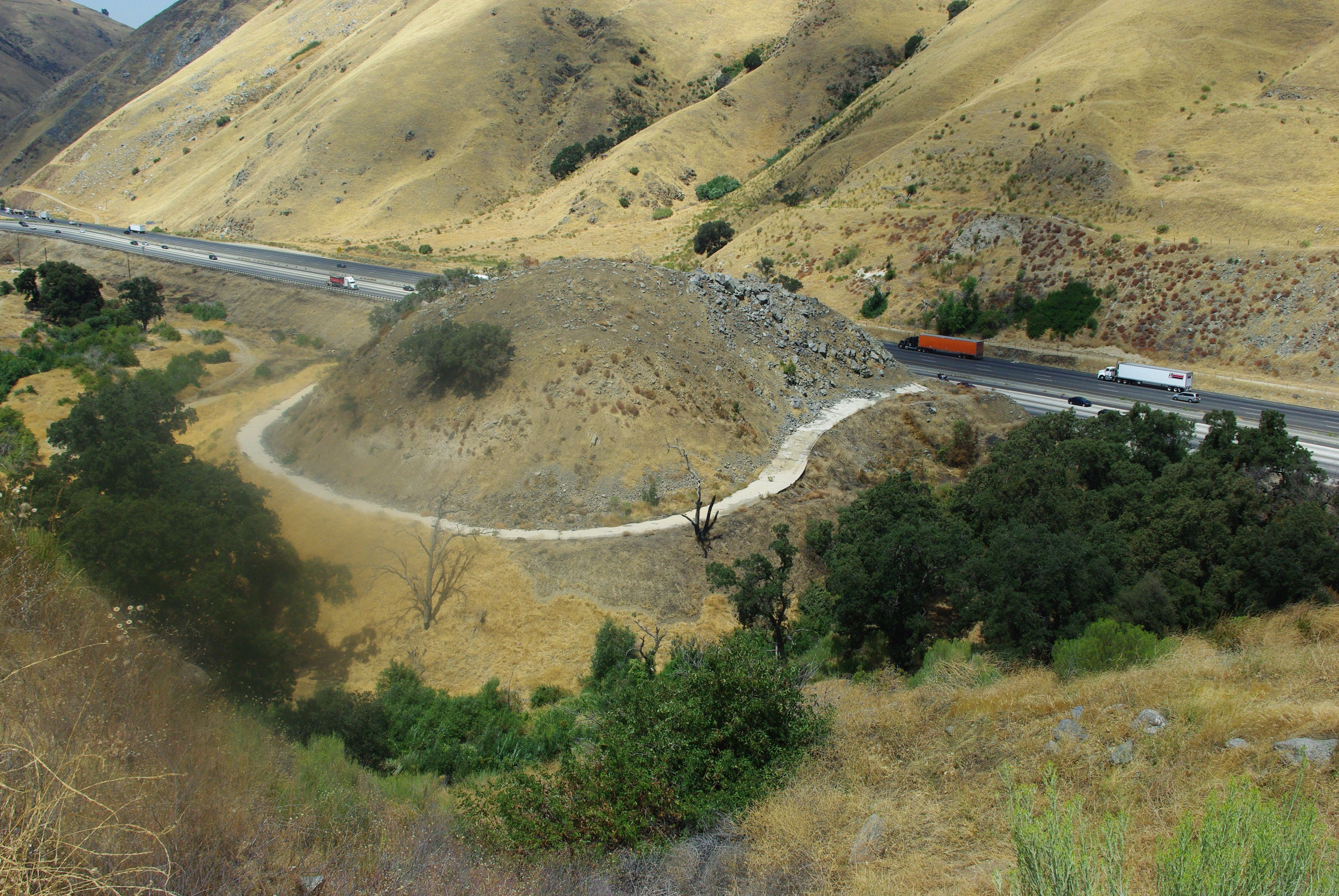 A portion of the Old Ridge Route in Lebec, that was bypassed when U.S. Highway 99 was made. It is known locally as "Dead Man's Curve." Photo by George Garrigues.